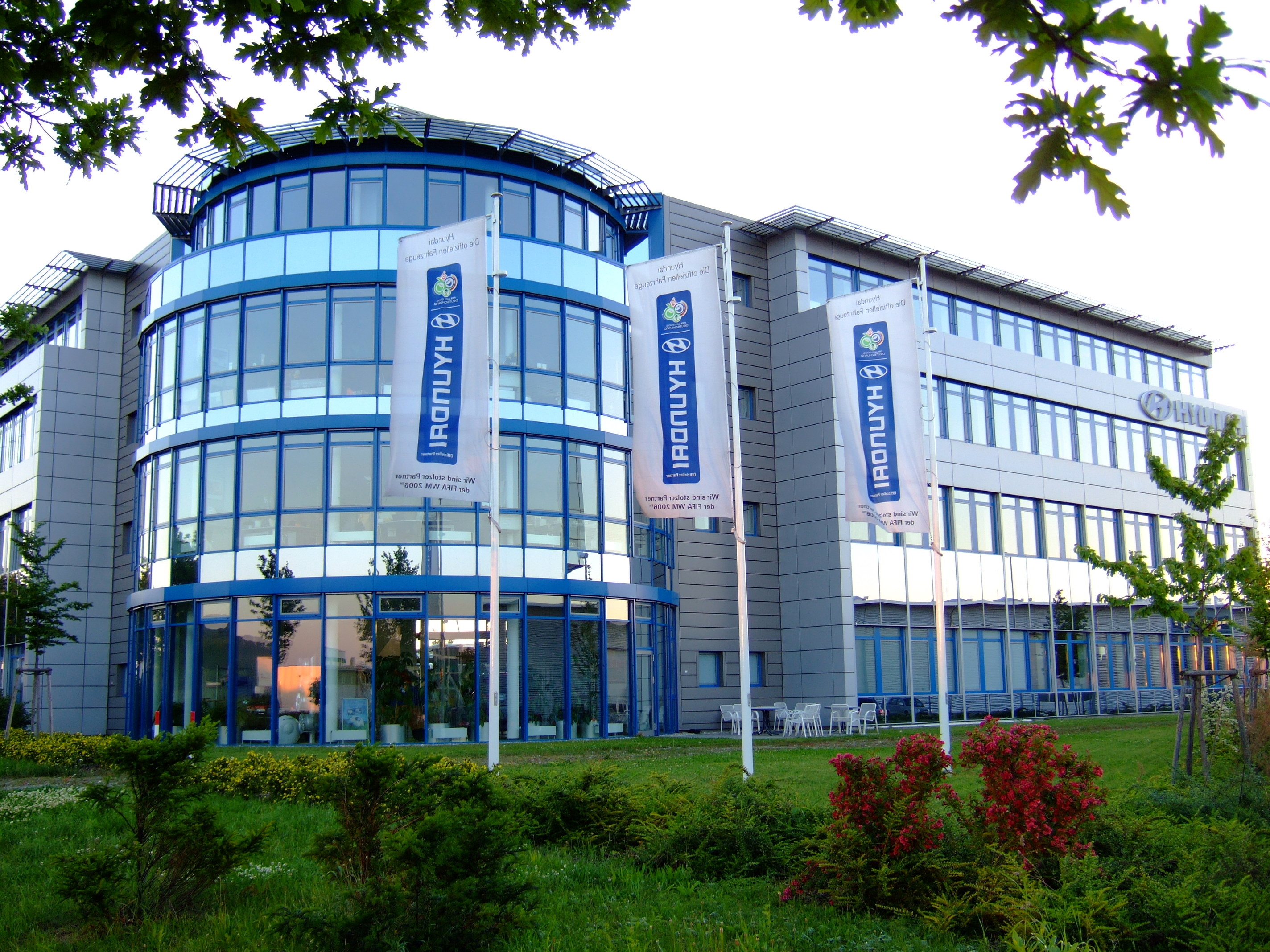 Building of the company Hyundai Motor Deutschland GmbH - Neckarsulm, Germany